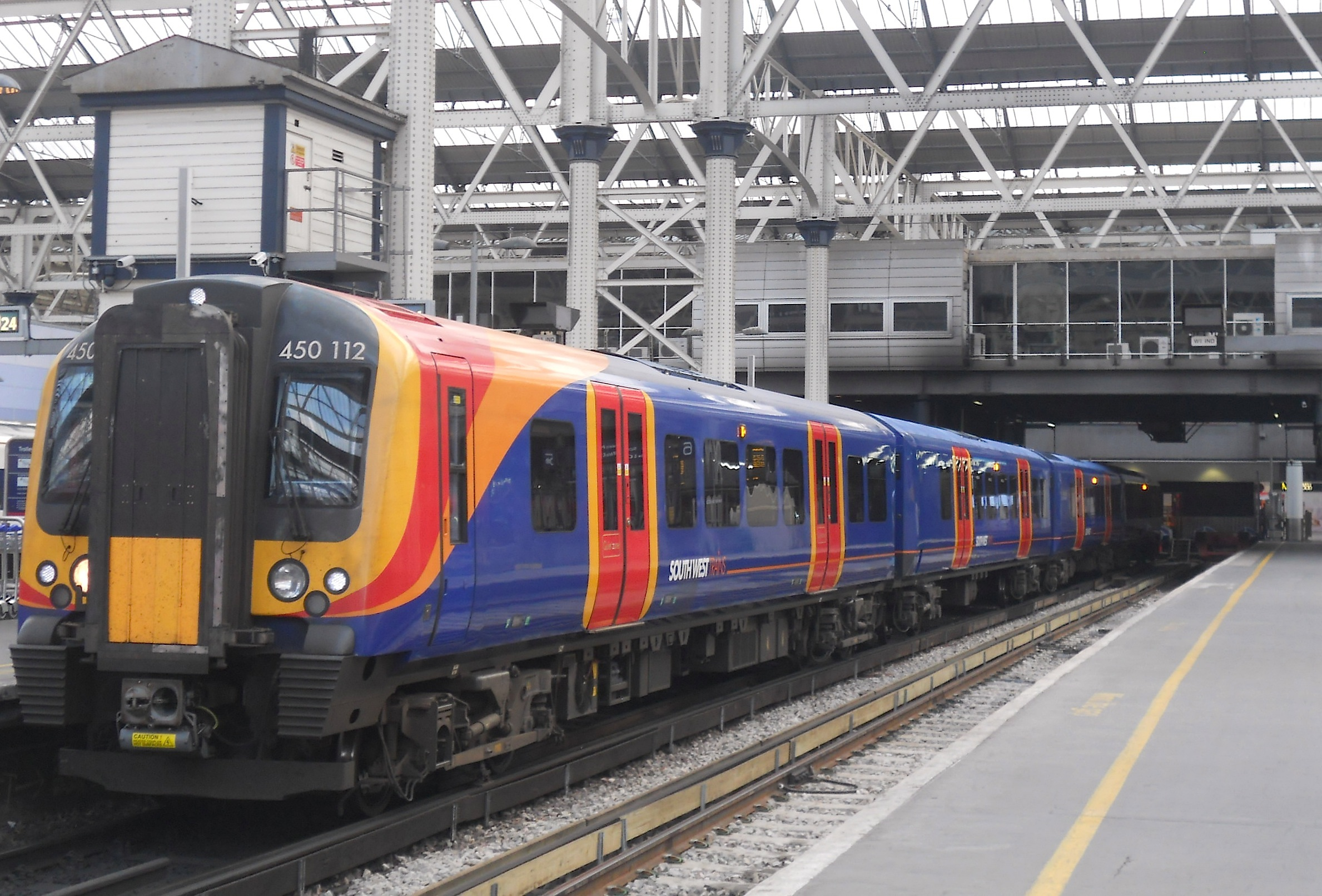 South West Trains Class 450 No. 450112 at London Waterloo